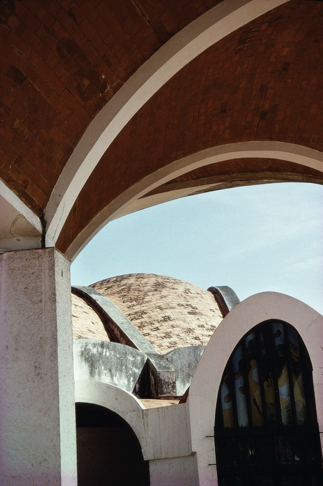 Photograph of architect Ricardo Porro's school of modern dance, part of Cuba's National Art Schools. Porro conceived the modern dance school’s plan as a sheet of glass that had been violently smashed and fragmented into shifting shards, symbolic of the revolution's violent overthrow of the old order. The fragments gather around an entry plaza - the locus of the "impact" - and develop into an urban scheme of linear, though non-rectilinear, shifting streets and courtyards. The entry arches form a hinge around which the library and administrative bar rotate away from the rest of the school. The south side of the fragmented plaza is defined by rotating dance pavilions, paired around shared dressing rooms. The north edge, facing a sharp drop in terrain, is made by two linear bars, containing classrooms, that form an obtuse angle. At the culmination of the angular procession, farthest from the entry, where the plaza once again compresses is the celebrated form of the performance theater. Photo donated to Creative Commons by author John Loomis.